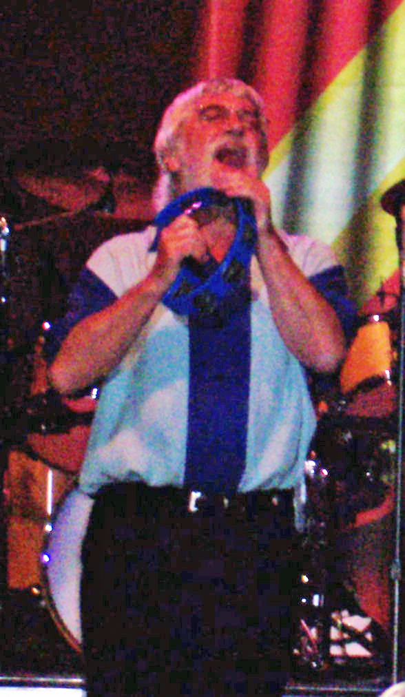 Graeme Edge from Moody Blues Moondance Jam concert 14/7/07